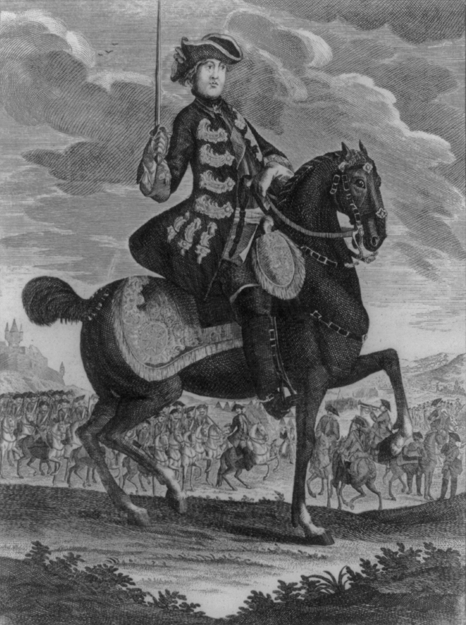 Charles Lee Esq'r. - major general of the Continental-Army in America / Ioh. Mich. Probst, jun. sc. ; Iohan Michael Probst exc. A.V. Print shows Charles Lee, full-length portrait, facing right, seated on horse, holding sword, with troops in the background. Includes verse in German and French.